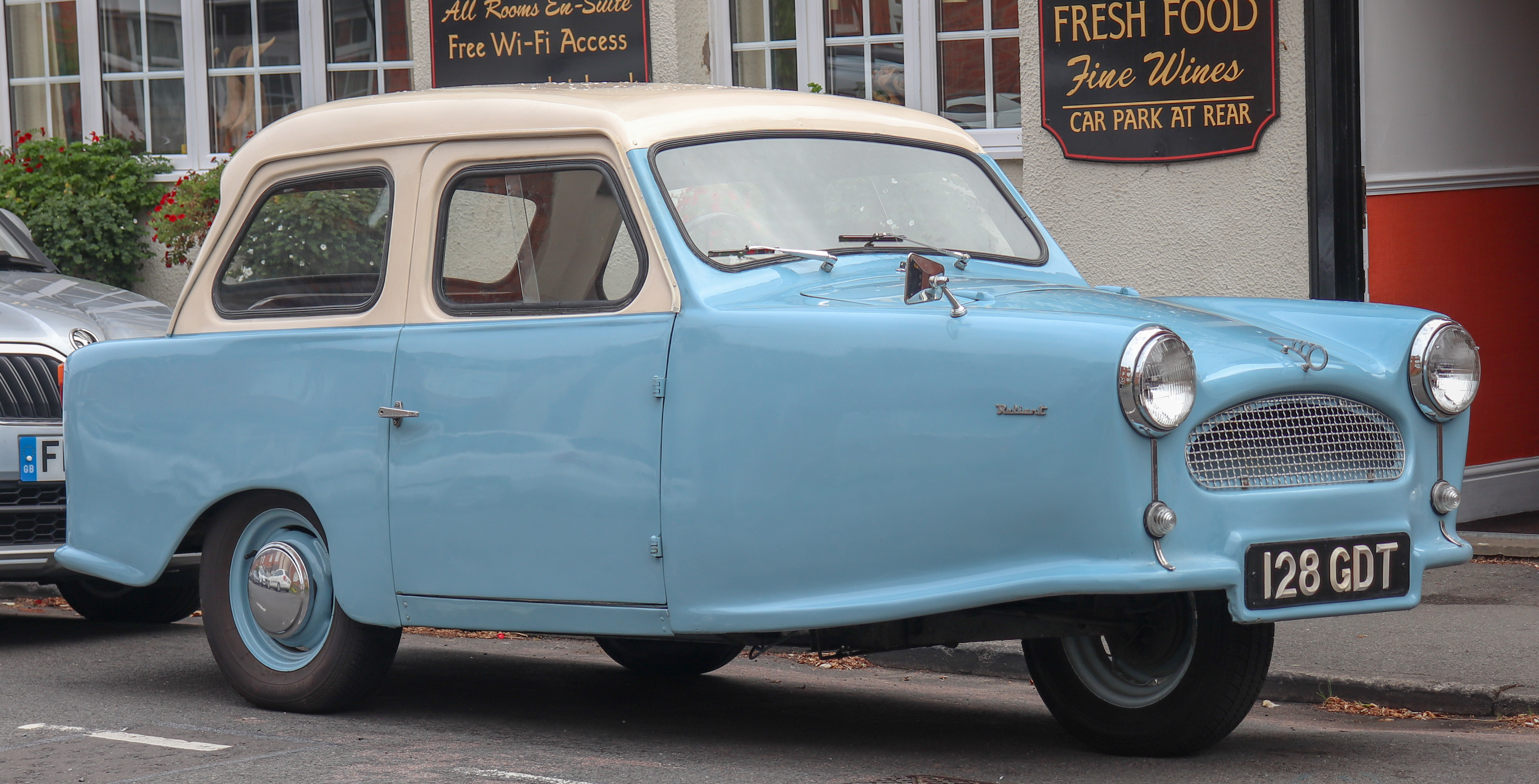 1962 Reliant Regal Mk VI 750cc Front Taken in Warwick